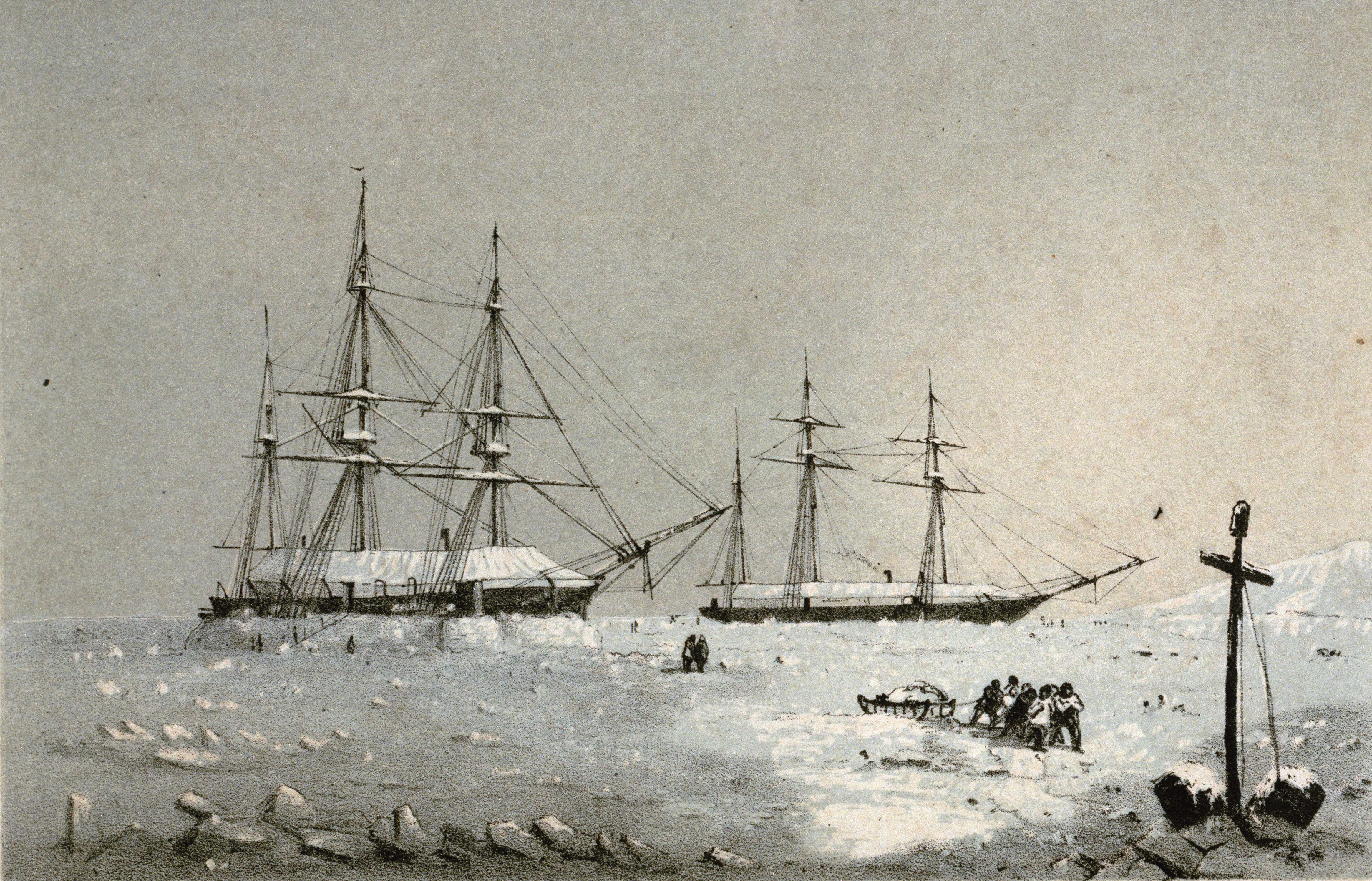 H.M.S Resolute and Intrepid winter Quarters, Melville Island, 1852-53 Print. When George Frederick McDougall drew the picture after which this print was made, he was a Master on H.M.S. Resolute. H.M.S Resolute And Intrepid winter Quarters, Melville Island, 1852-53